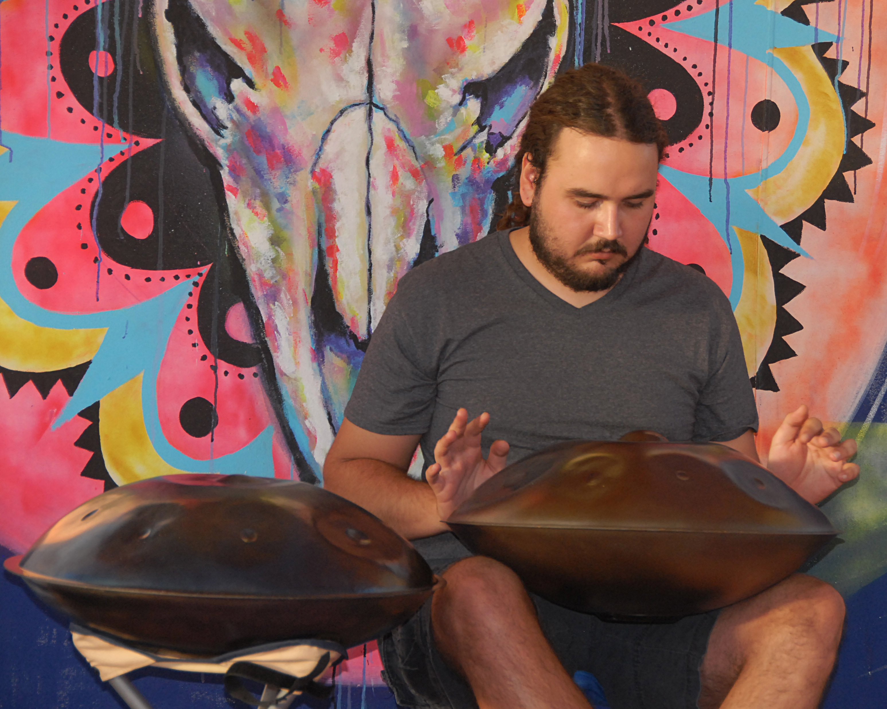 Musician playing a Handpan at the Joshua Tree Music Festival in Joshua Tree, California on October 11, 2014 - Photo by Glenn Francis of